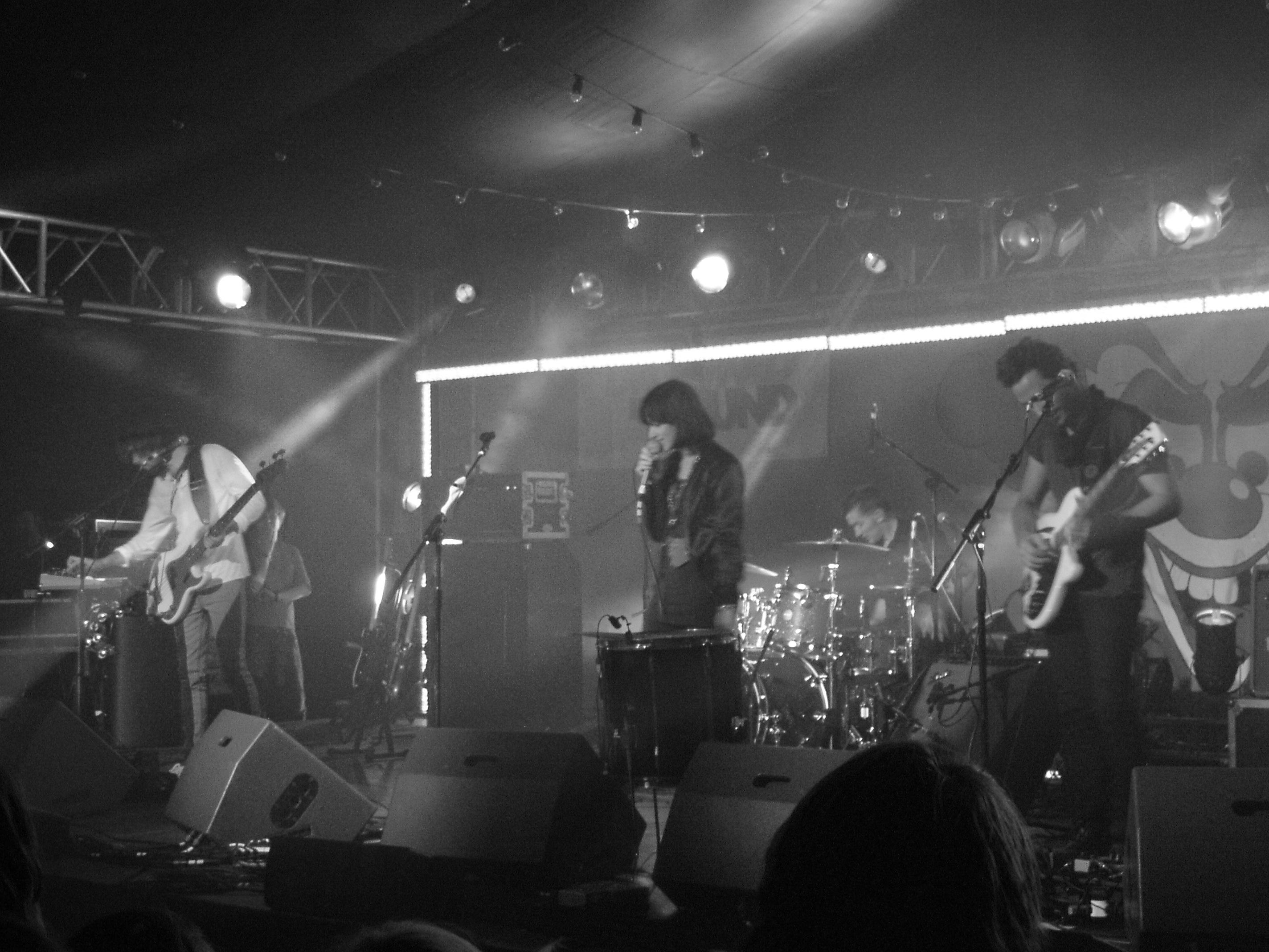 The Howling Bells performing at Summer Sundae, Leicester, August 2008